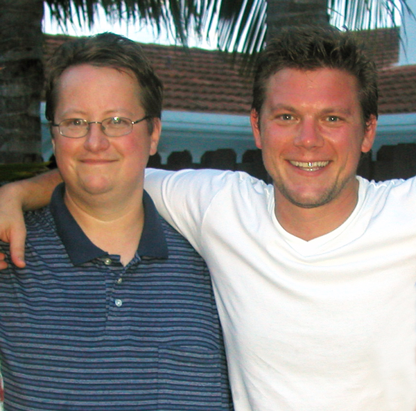 Food Writer and TV Chef Glenn Lindgren and Tyler Florence on the set of "Tyler's Ultimate" in Miami 2002.